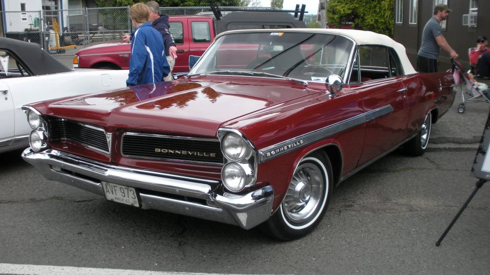 Photo taken at the Greenwood Car Show in Seattle Washington.